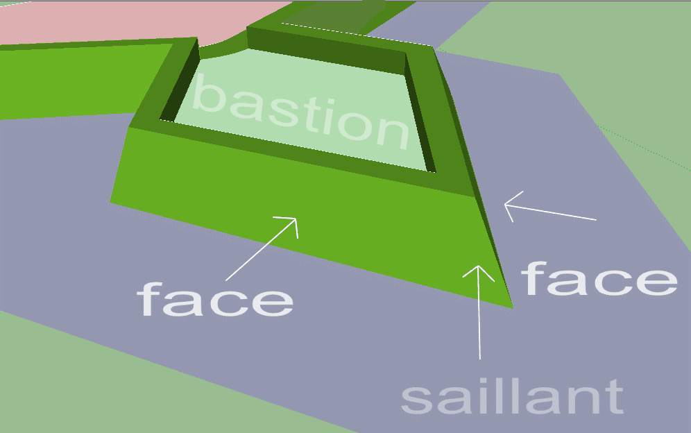 Fort component 'face' of a bastion